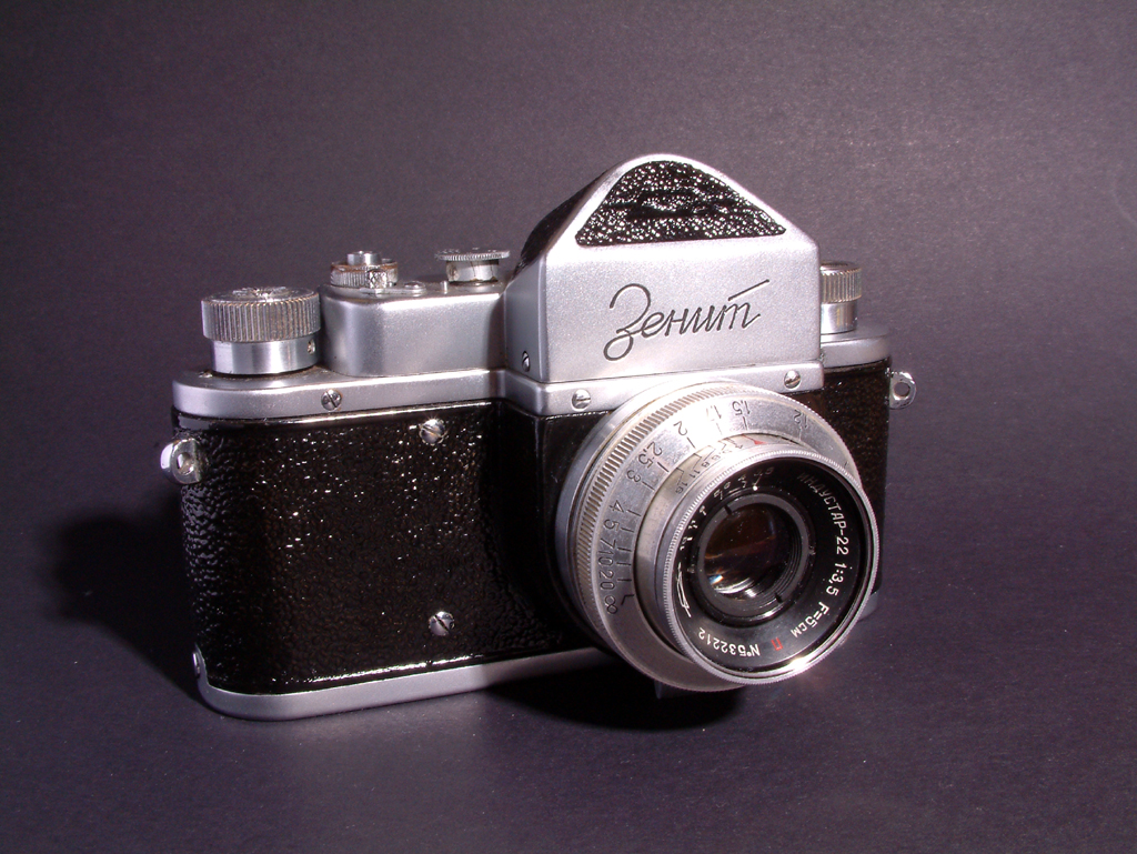 This is my 1953 Zenit. It has an Industar 22 50 mm f/3.5 standard lens. I also have a Helios 40 (85/1.5) and a Mir 1 (37/2.8) for it. It seems to have some holes in the shutter, but they don't show up in every picture.